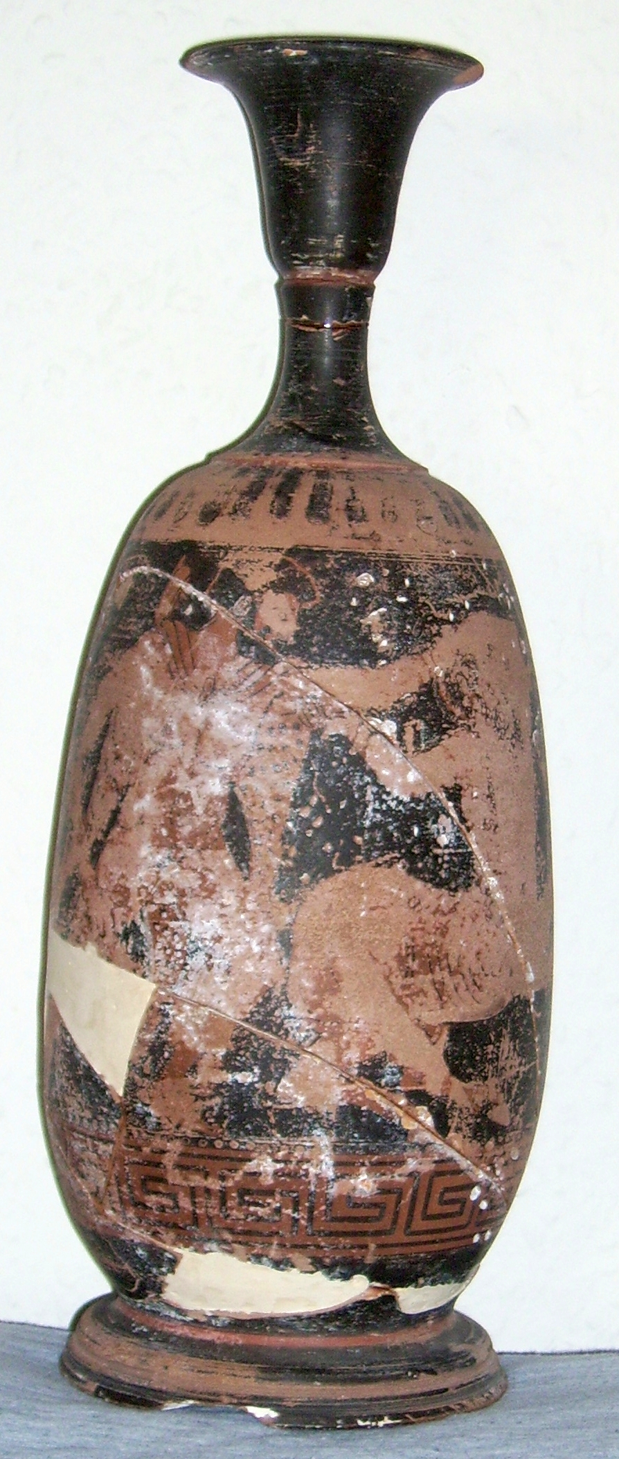 Attic red-figure Lekythos, Herakles kills Nesso; ca. 480 BC; German private collection